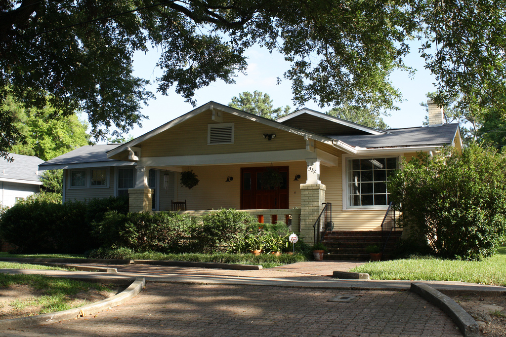 Jared Young Sanders, Jr., House